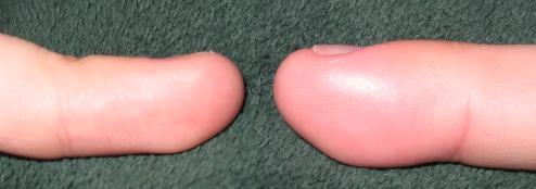 Comparison of left and right ring fingers of same patient, the right one exhibiting acute paronychia.